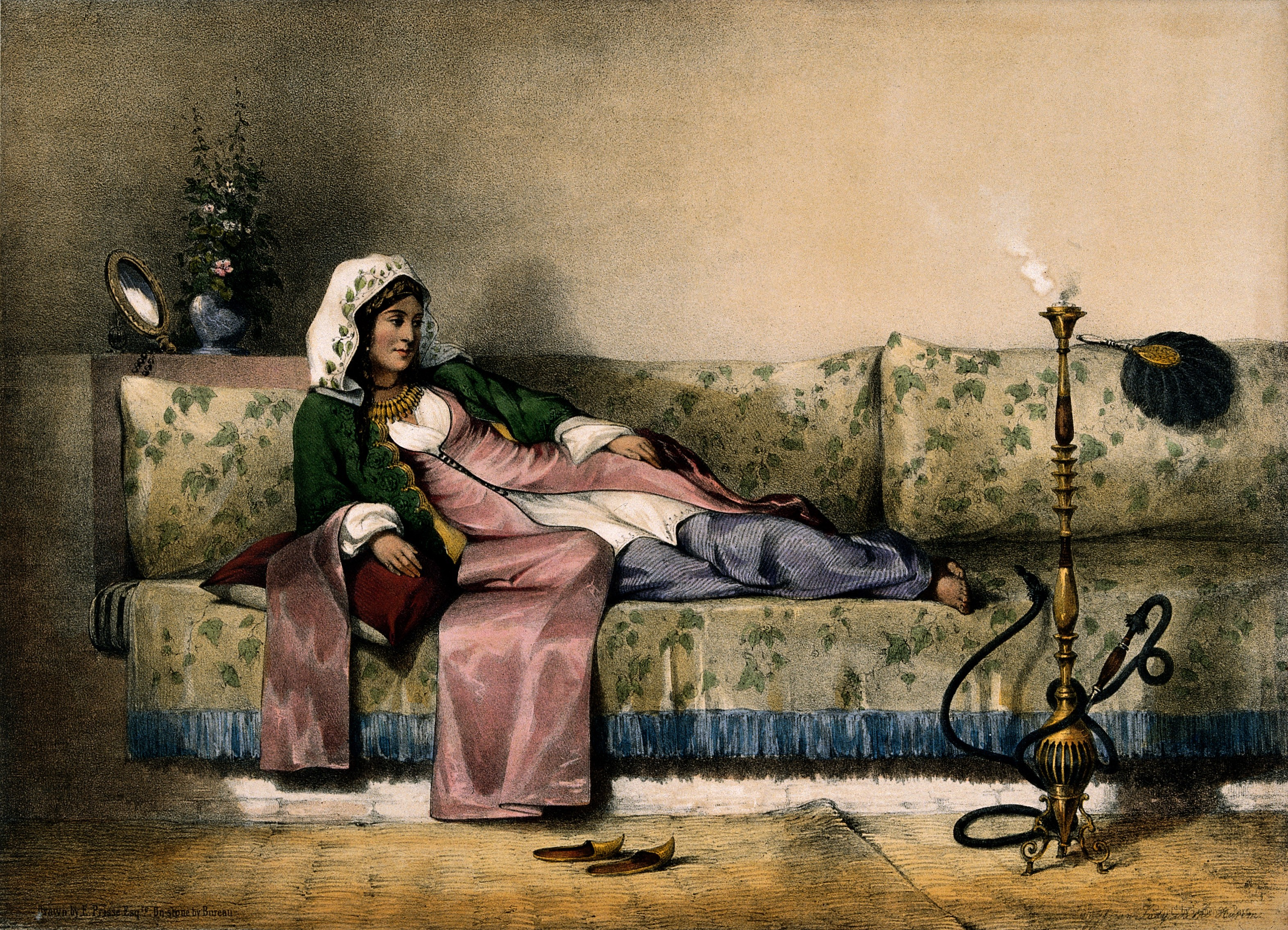 A Muslim lady reclining in her harem by a smoking hooka. Coloured lithograph by P. Bureau, c. 1870, after E. Prisse. Iconographic Collections Keywords: Pierre-Isidore Bureau; Achille-Constant-Théodore-Emile Prisse d'Avennes